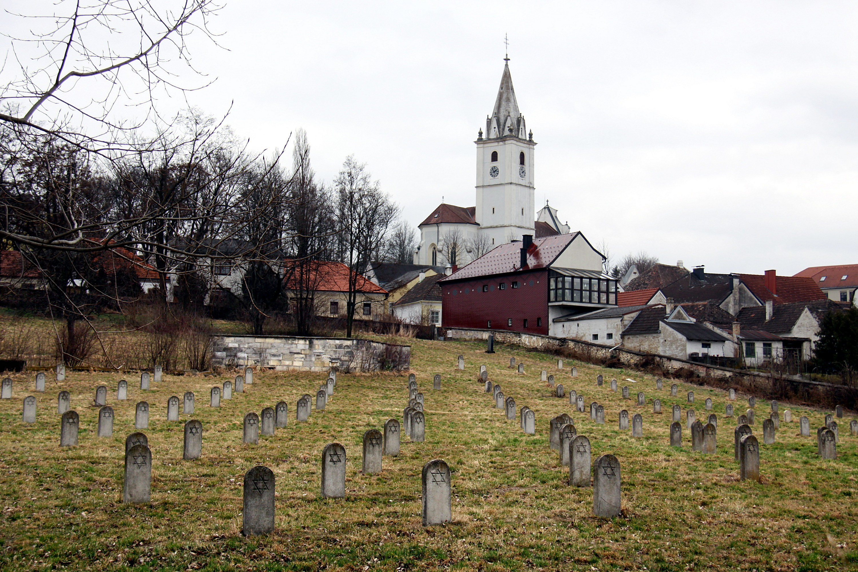 Jewish cemetery - Mattersburg. Object location47° 44′ 15.21″ N, 16° 24′ 09.89″ E